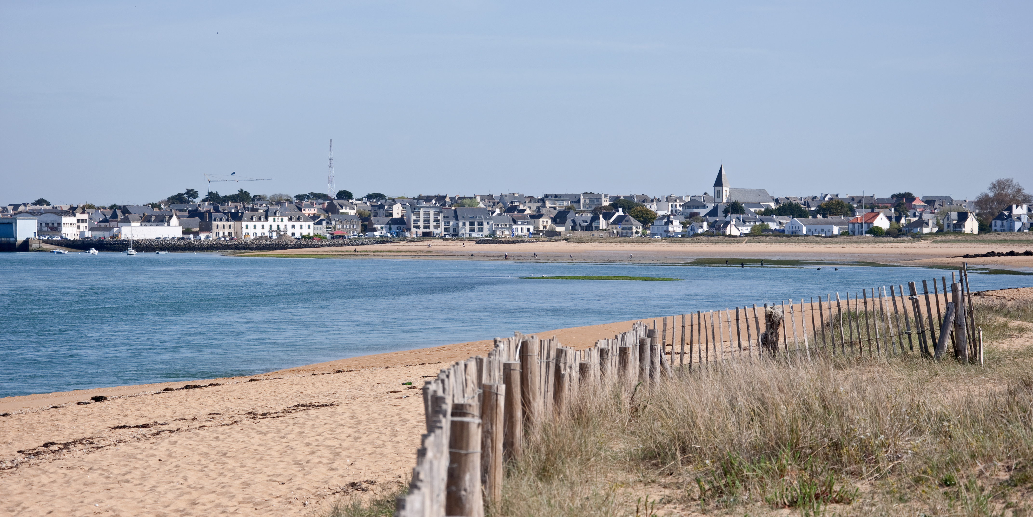 The town of Étel by its river, the ria d'Étel (Morbihan, Brittany, France).